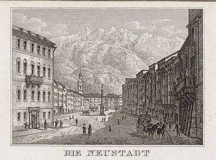 Map of Imperial and Royal Provincial Capital Innsbruck and surroundings: detail Maria-Theresien-Straße and Annasäule